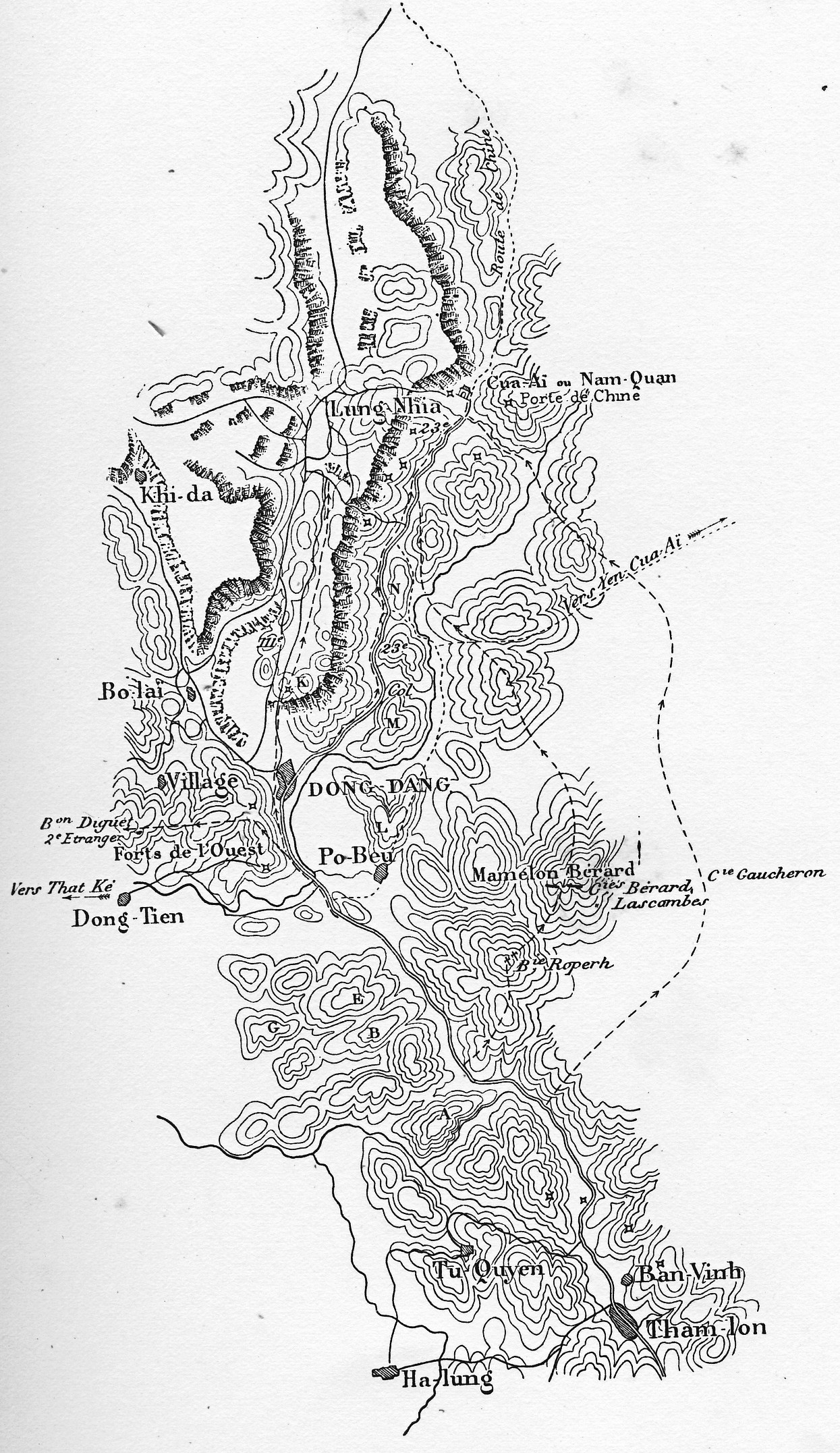 French map of the Battle of Dong Dang (23 February 1885)